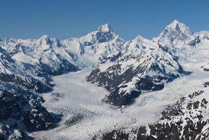 Mount Salisbury centered in the distance beyond Margerie Glacier, with Mount Tlingit to right. Aerial view in Alaska.